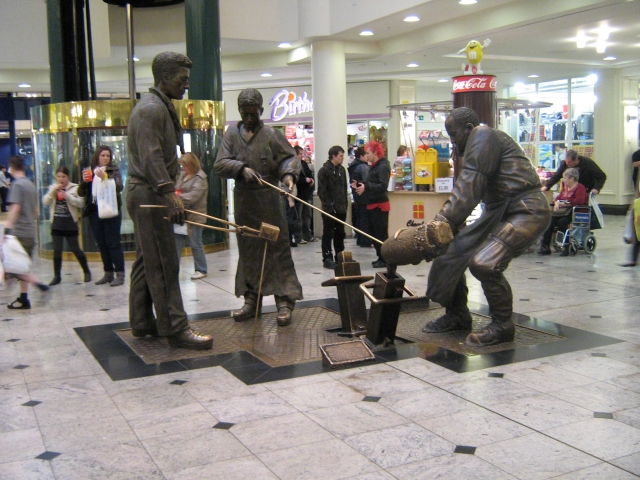 Teeming with shoppers. Inscriptions: In bronze on base behind teemer: "Teeming" by Robin Bell 1989-90 Two identical bronze plaques, one at front of work and one at side by teemer: BENJAMIN HUNTSMAN (1704-1770) WAS A CLOCK & WATCHMAKER FROM DONCASTER WHO CAME TO SHEFFIELD IN SEARCH OF QUALITY STEEL FOR CLOCK SPRINGS. THE TECHNIQUE OF STEEL MAKING WHICH HE DEVELOPED USING CLAY CRUCIBLE POTS REVOLUTIONISED QUALITY CONTROL & ENABLED SHEFFIELD STEEL TO BECOME PRE-EMINENT IN THE PRODUCTION OF STEEL. A DEVOUT QUAKER, HE ALLOWED NO PORTRAIT OF HIMSELF TO BE MADE BUT THE CRUCIBLE METHOD HAS REMAINED AS A TESTAMENT TO HIM. IT WAS USED FOR MORE THAN 200 YEARS.